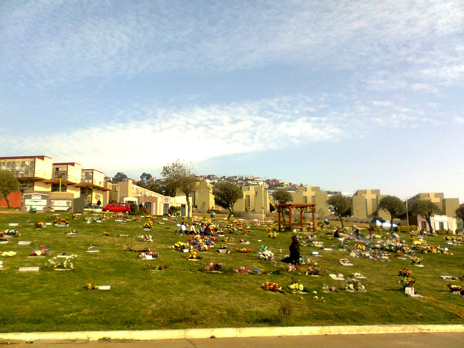 Cemetery Nº 3 of Valparaíso, Chile.